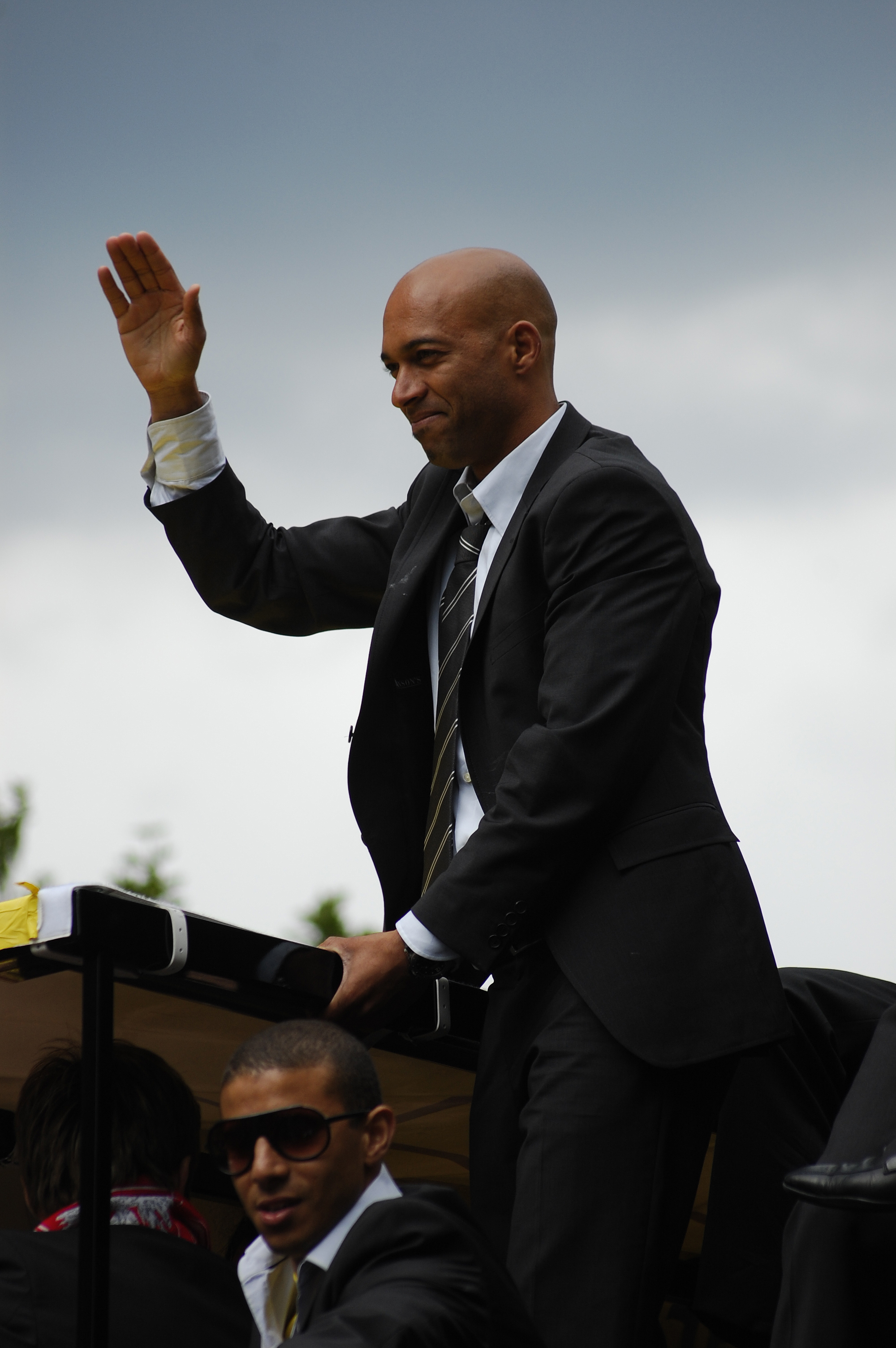 Leonardo de Deus Santos at Borussia Dortmund's Championship celebration 2011.